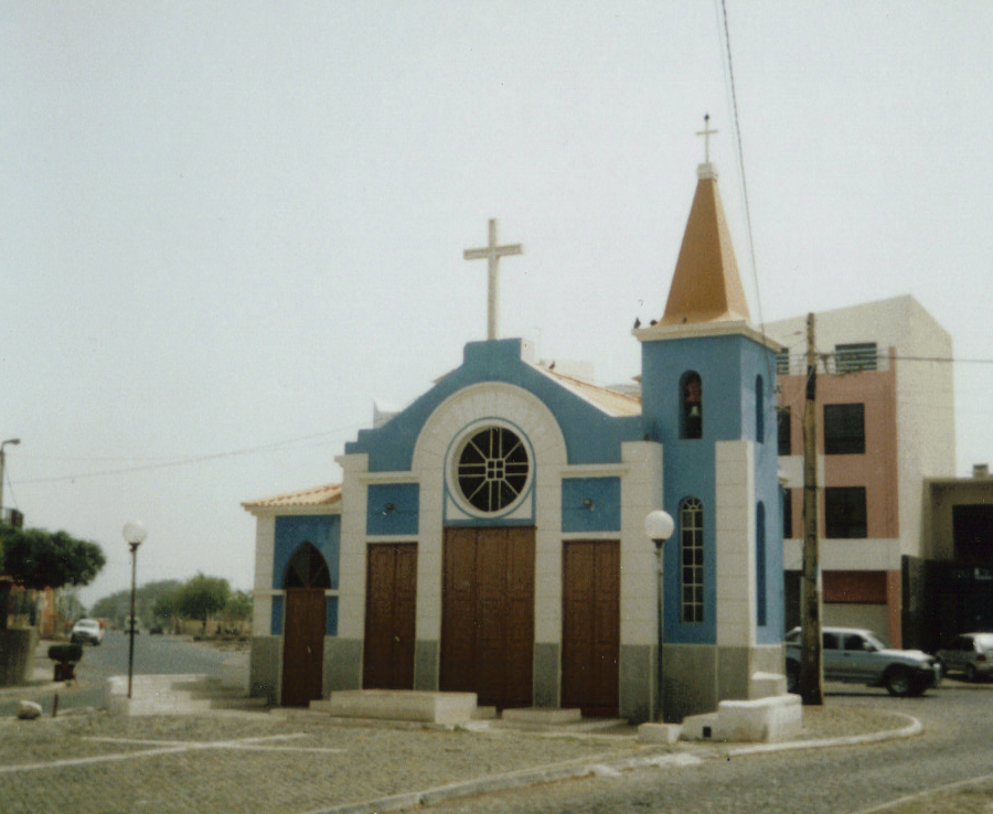 Saint Antony's Chapel, Praia, Cape Verde.